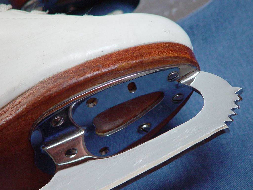 Close-up of one of User:dr.frog's figure skates, showing the toe picks, hollow on the bottom surface of the blade, and attachment with screws to the sole of the boot.